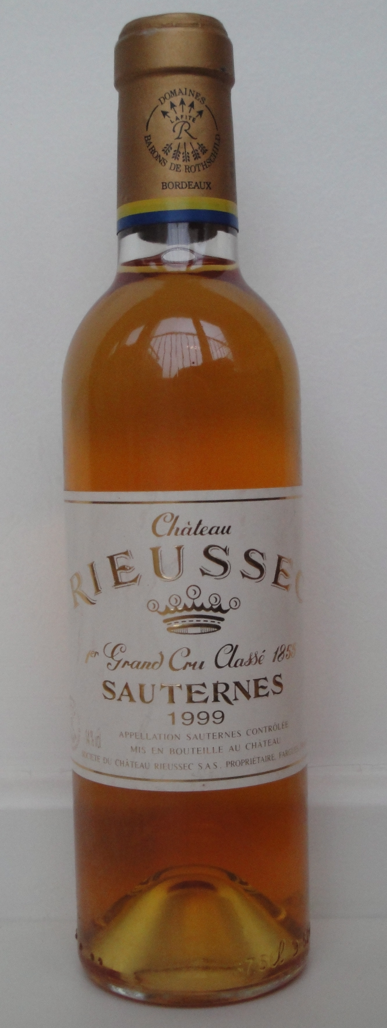 Half bottle of 1999 Château Rieussec, a wine from Sauternes in Bordeaux, classified as a First Growth in the 1855 Bordeaux classification.